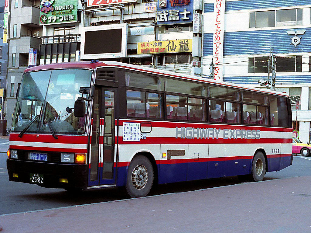 Fukushima kotsu Mitsubishi Fuso Aero Bus(P-MS725SA-kai,from JR bus Kanto) Highwaybus "Abukuma"(Fukushima-Koriyama-Shinjuku,Tokyo)